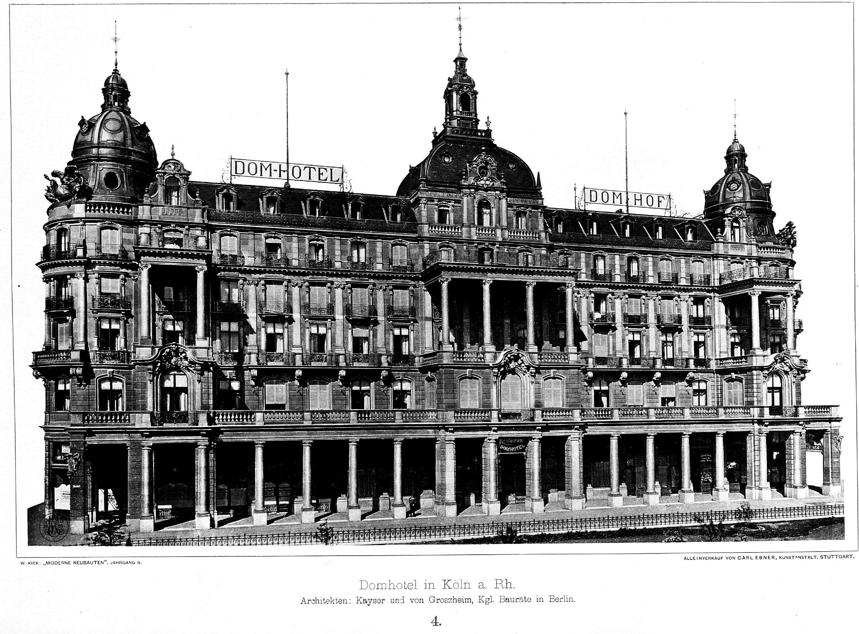 Domhotel_in_Köln_Architekten_Kayser_und_von_Groszheim,_Kgl._Bauräte_in_Berlin,_Tafel_4,_Kick_Jahrgang_II.jpg